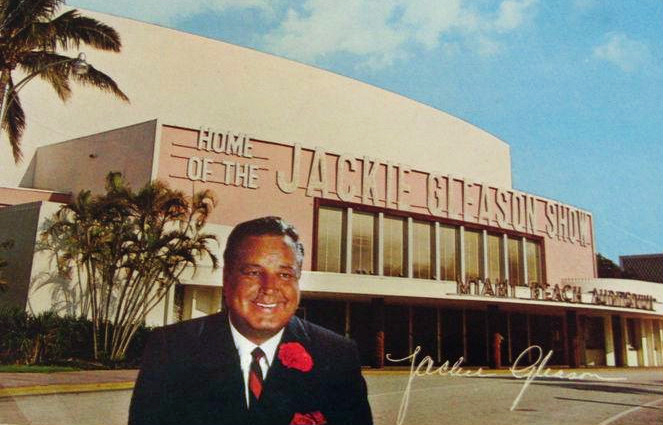 Reply postcard from the Miami Beach Auditorium in response to ticket requests for The Jackie Gleason Show and The Dom DeLuise Show television programs which both taped their shows at the venue.